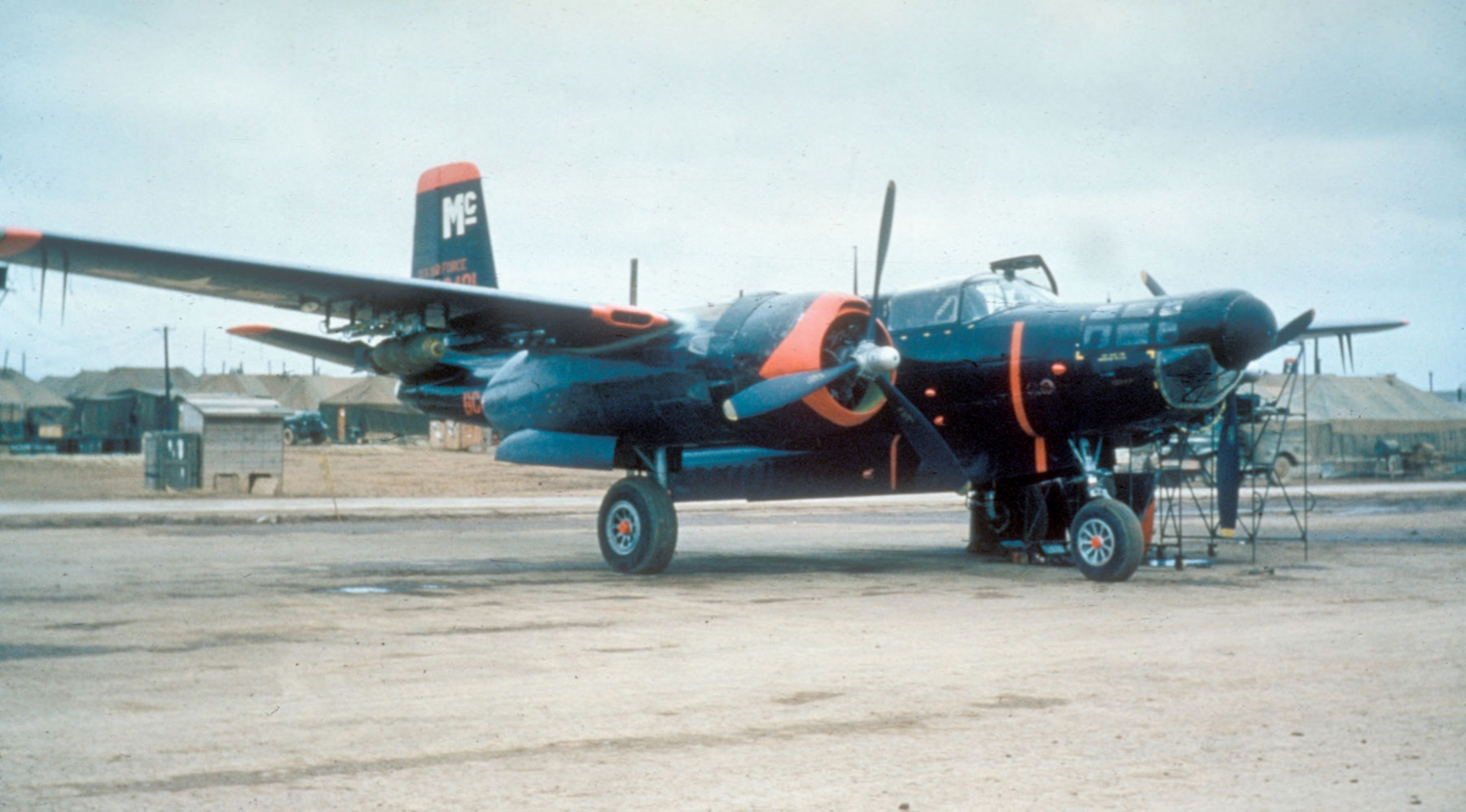 An infrared seeker-equipped U.S. Air Force Douglas B-26C Invader from the 13th Bomb Squadron, 3rd Bombardement Group (Light) in Korea. To find the enemy at night, a few B-26s carried experimental infrared detection equipment. The operator viewed a 3-inch screen that crudely indicated high heat sources, such as train engines.